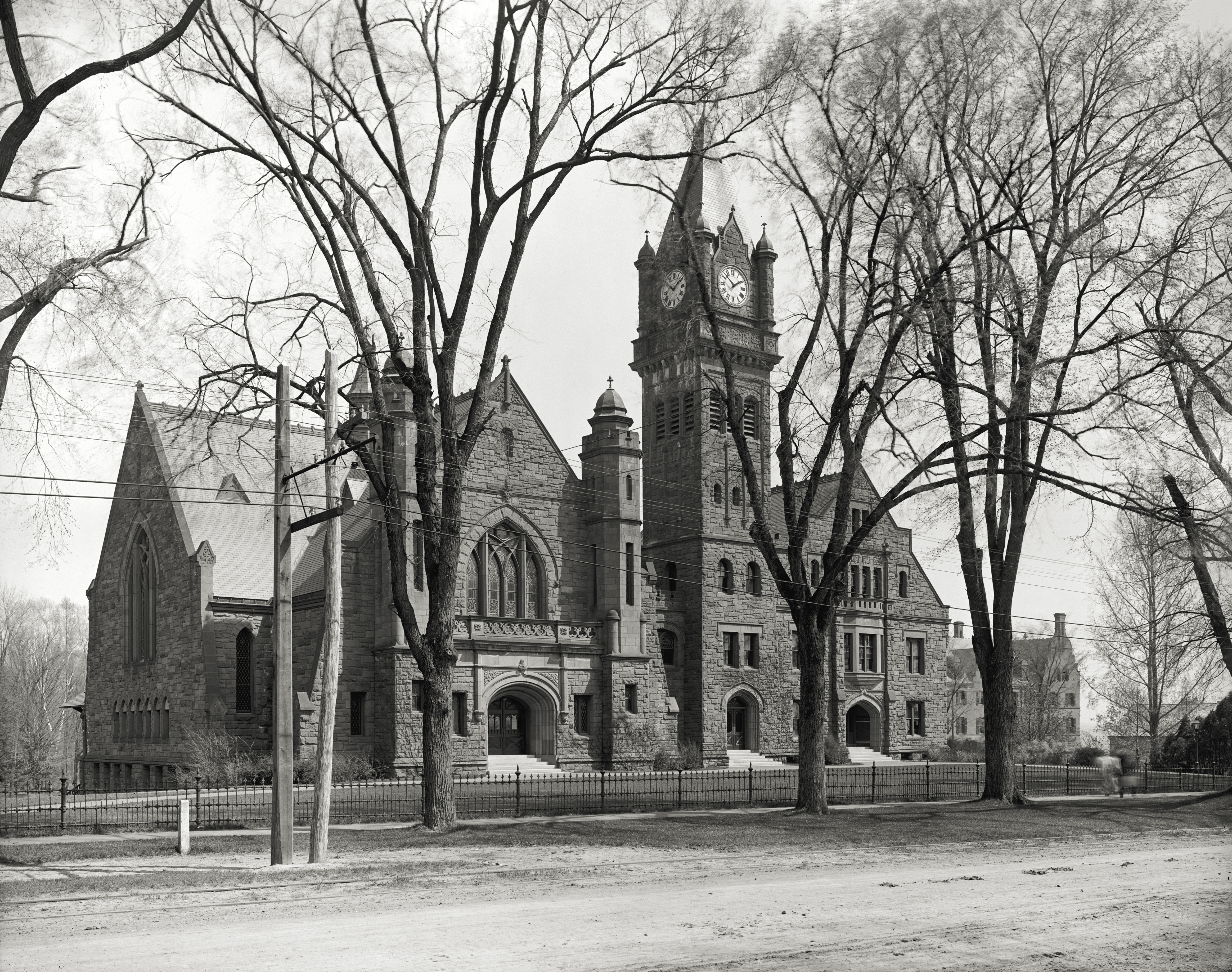 Mary Lyon Hall, Mount Holyoke College, South Hadley, Massachusetts, USA, circa 1908. print of glass negative.